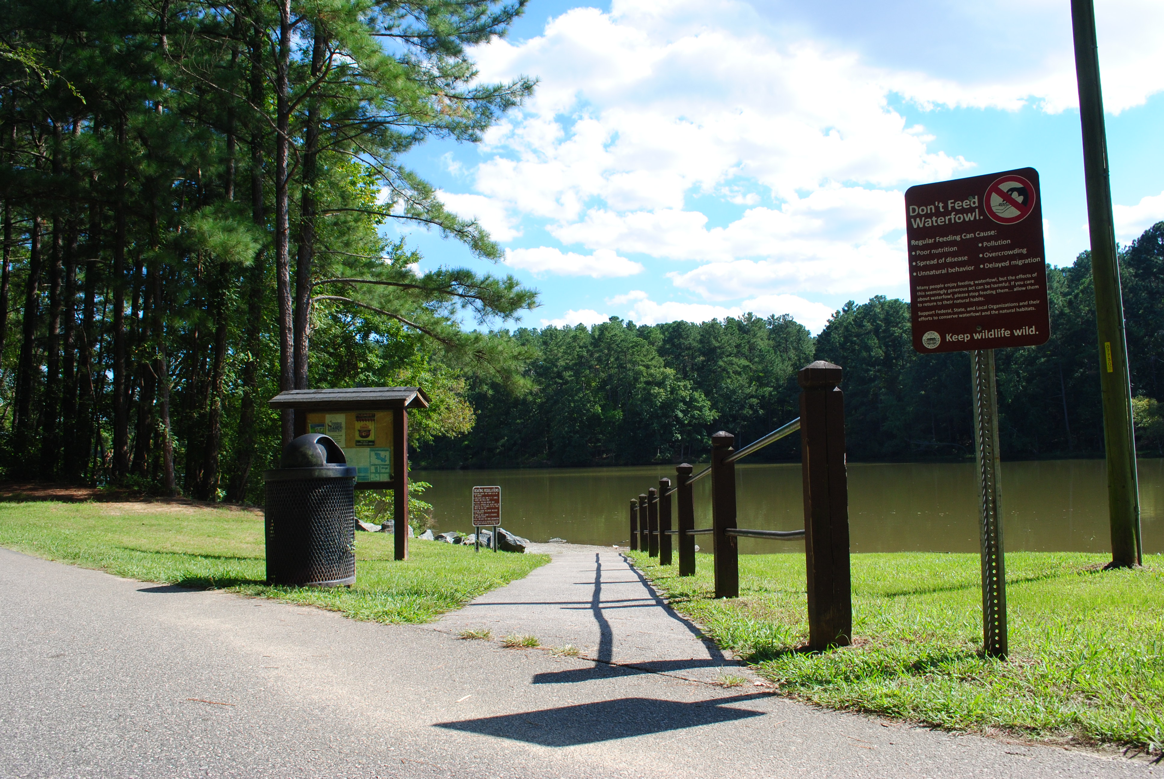 Lake Signage at Apex Community Park along lakeside trail